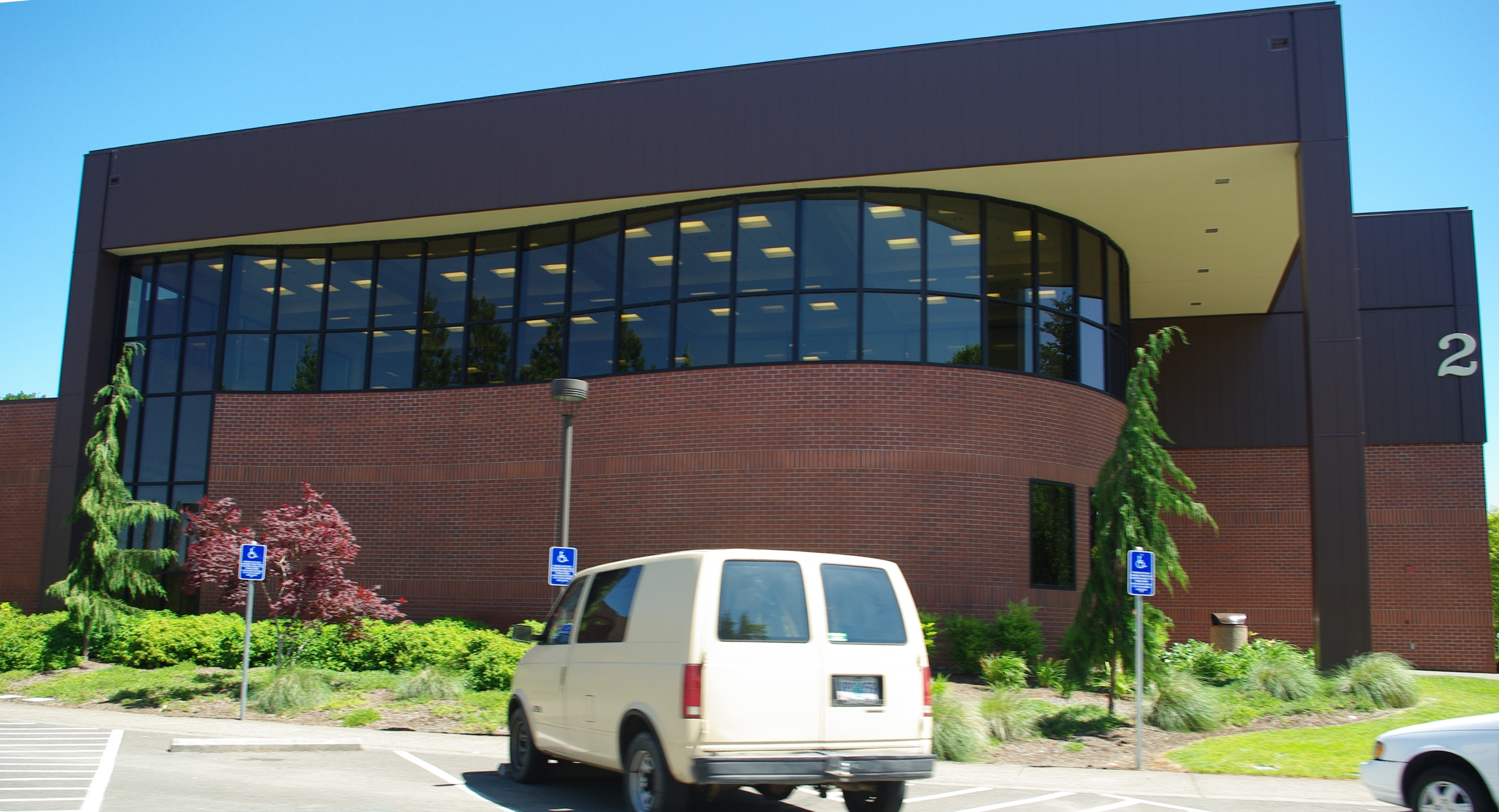 Chemeketa Community College in Salem, Oregon, USA